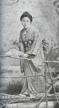 A Photo of Painter Kiyohara Tama (Eleonora Ragusa)